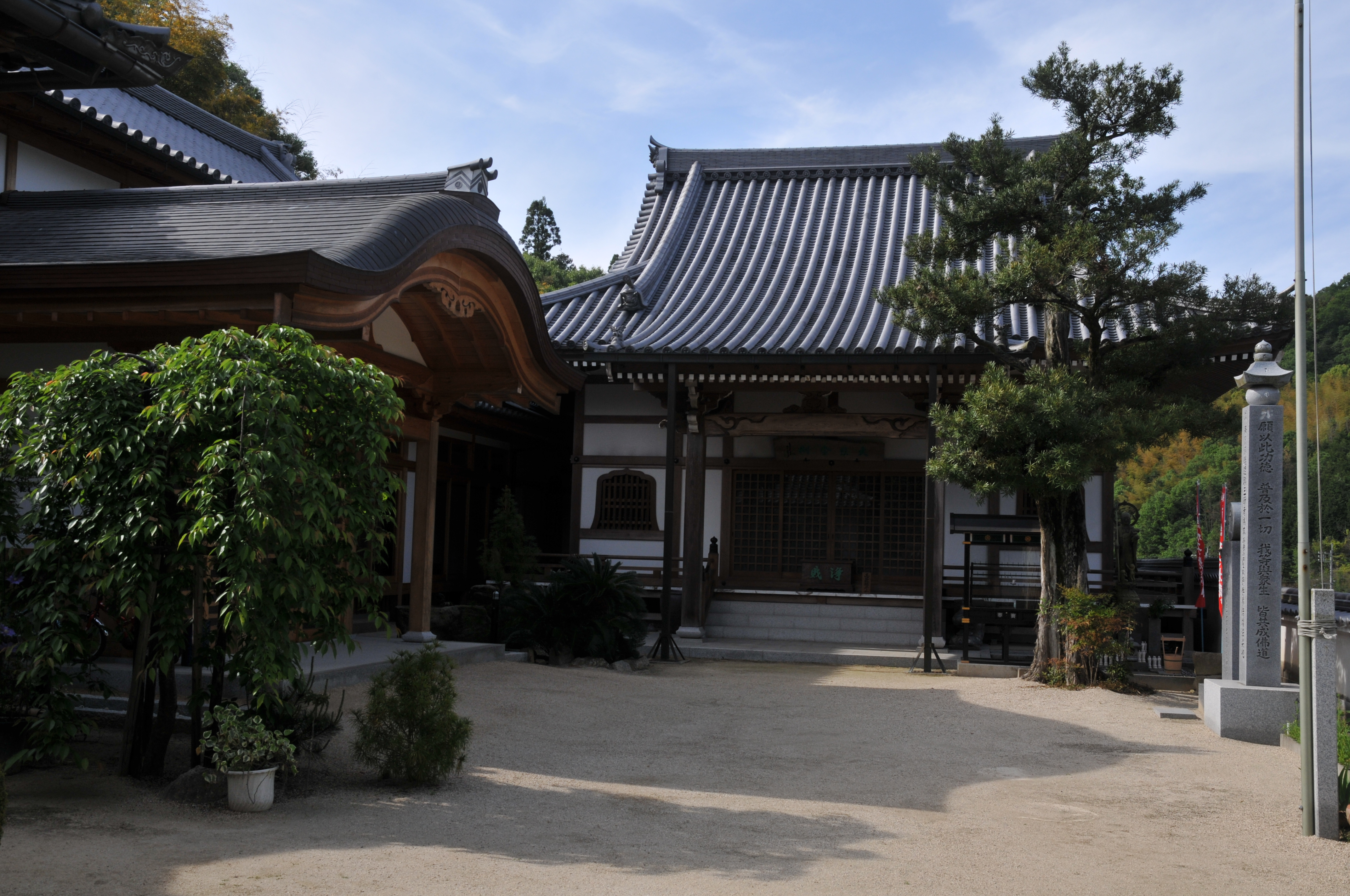 Main temple, Tōju-in